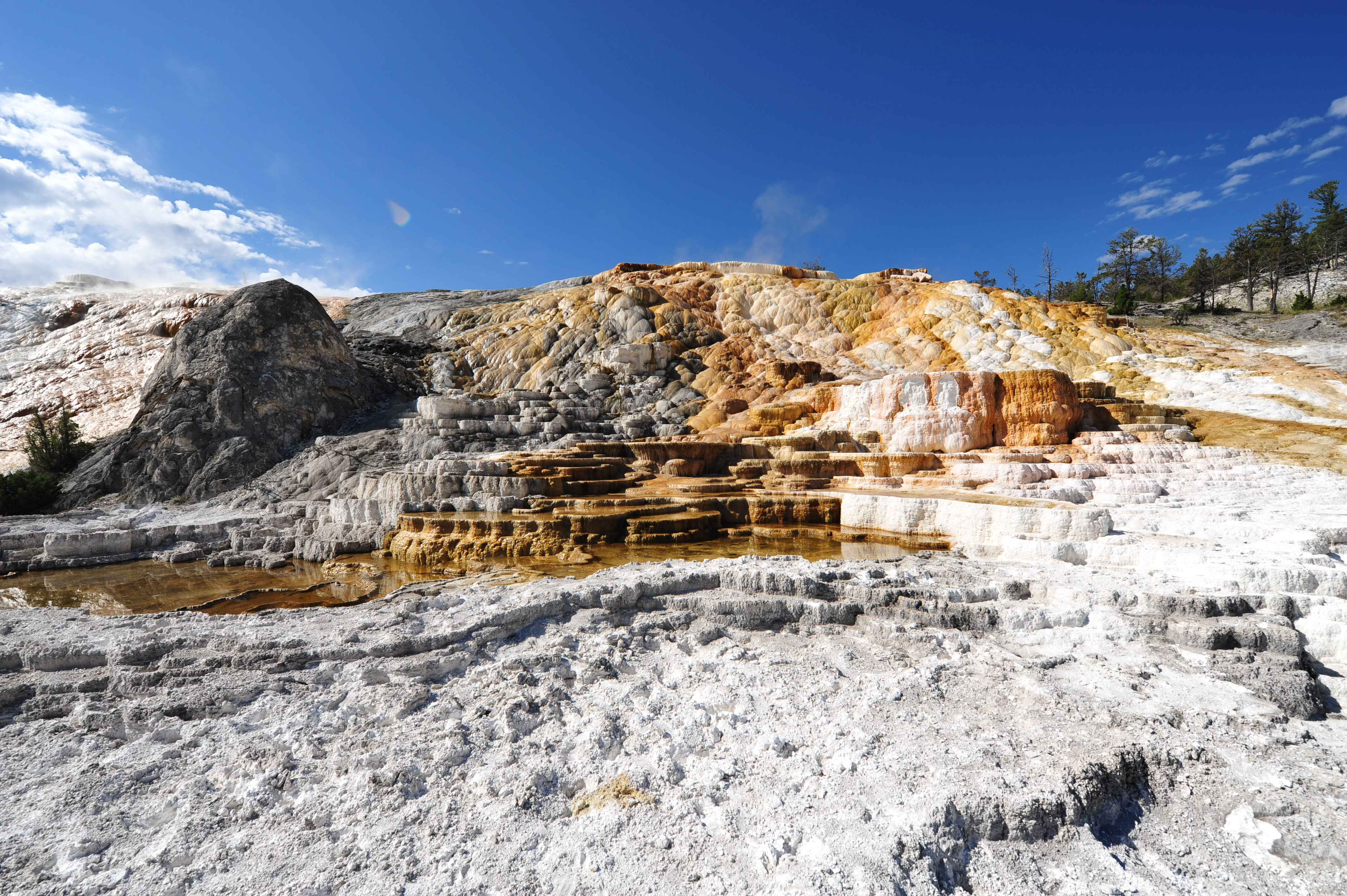 Colourful mineral deposition at Mammoth Hot Springs